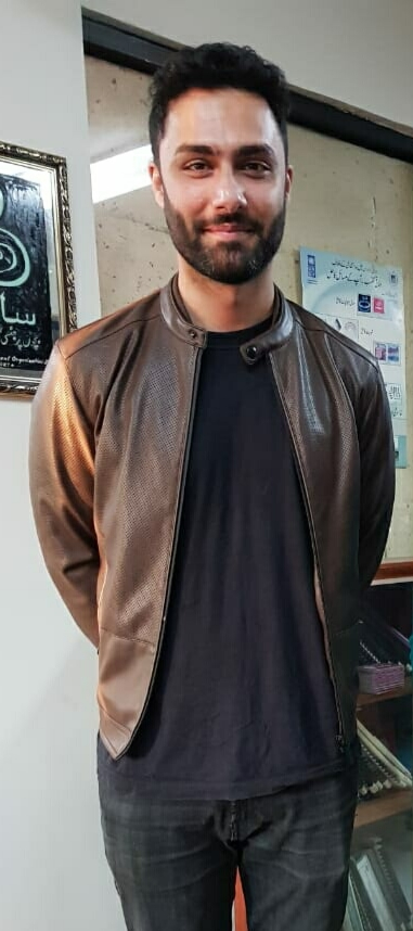 The picture of Ahmed Ali Akbar in Islamabad